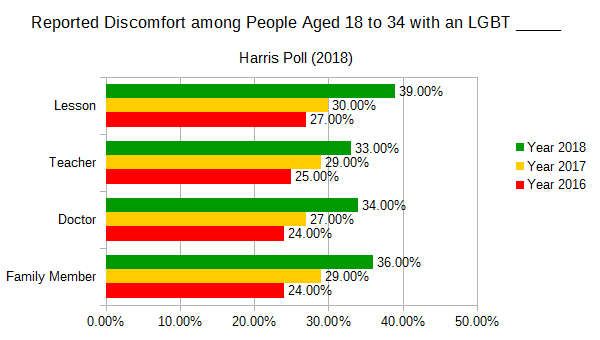 People aged 18 to 34 are becoming less tolerant of the LGBT community over time. Data available at